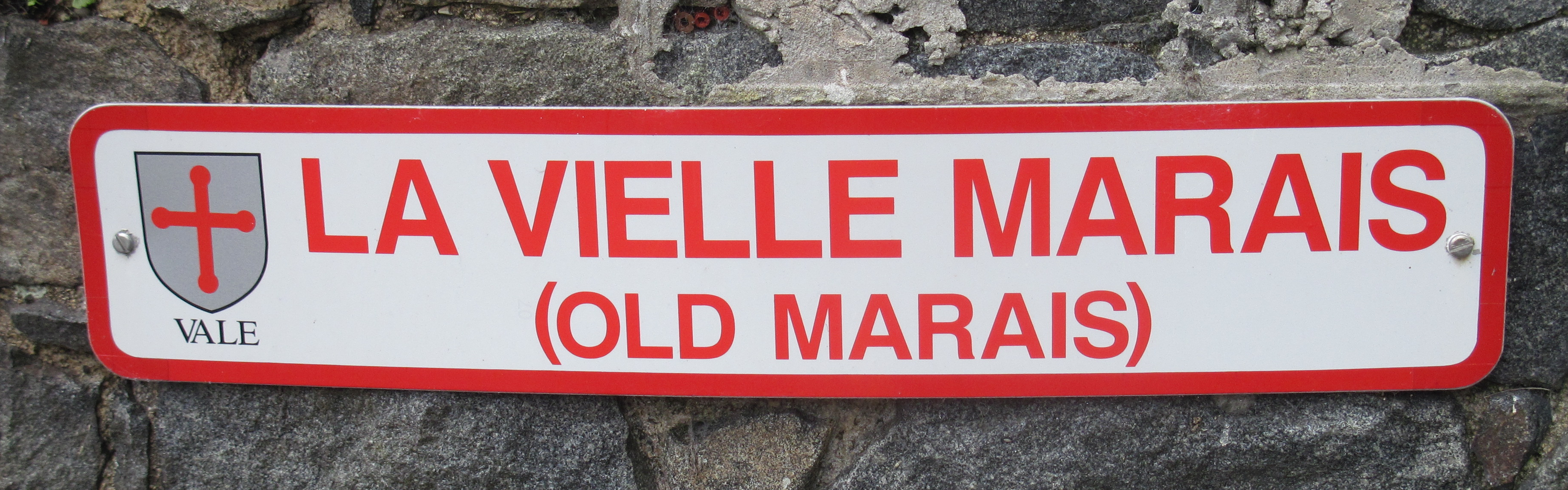 Guernsey, 2 July 2010: road name